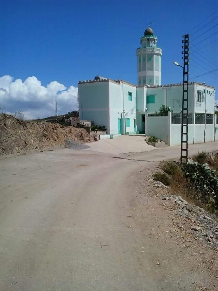 mosque ighil bouchene